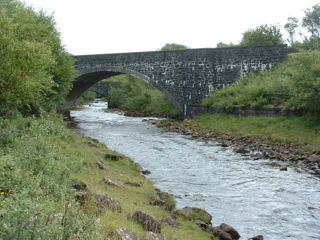 Bridges over the Beach river.